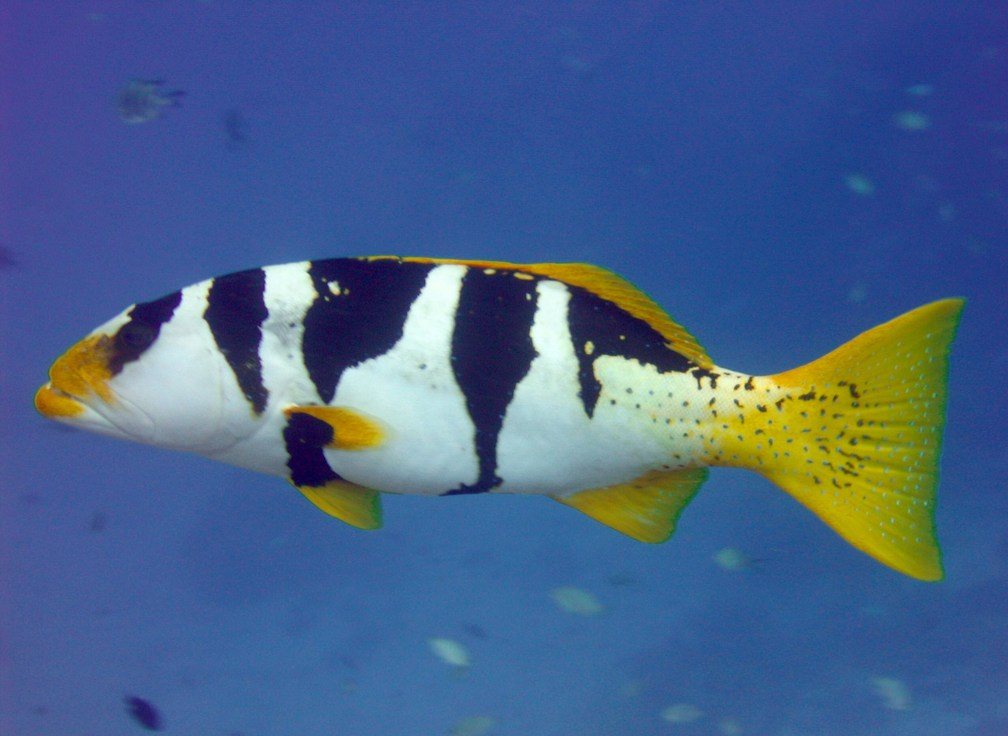 A Footballer Cod (Plectropomus laevis). Wheeler Reef, Great Barrier Reef